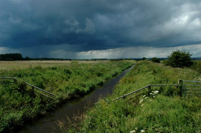 The River Hertford from Flixton Bridge, looking west Looking towards the former Mesolithic lake settlement of Star Carr. The approaching thunderstorm in the distance inflicted the soaking of a lifetime on the photographer!